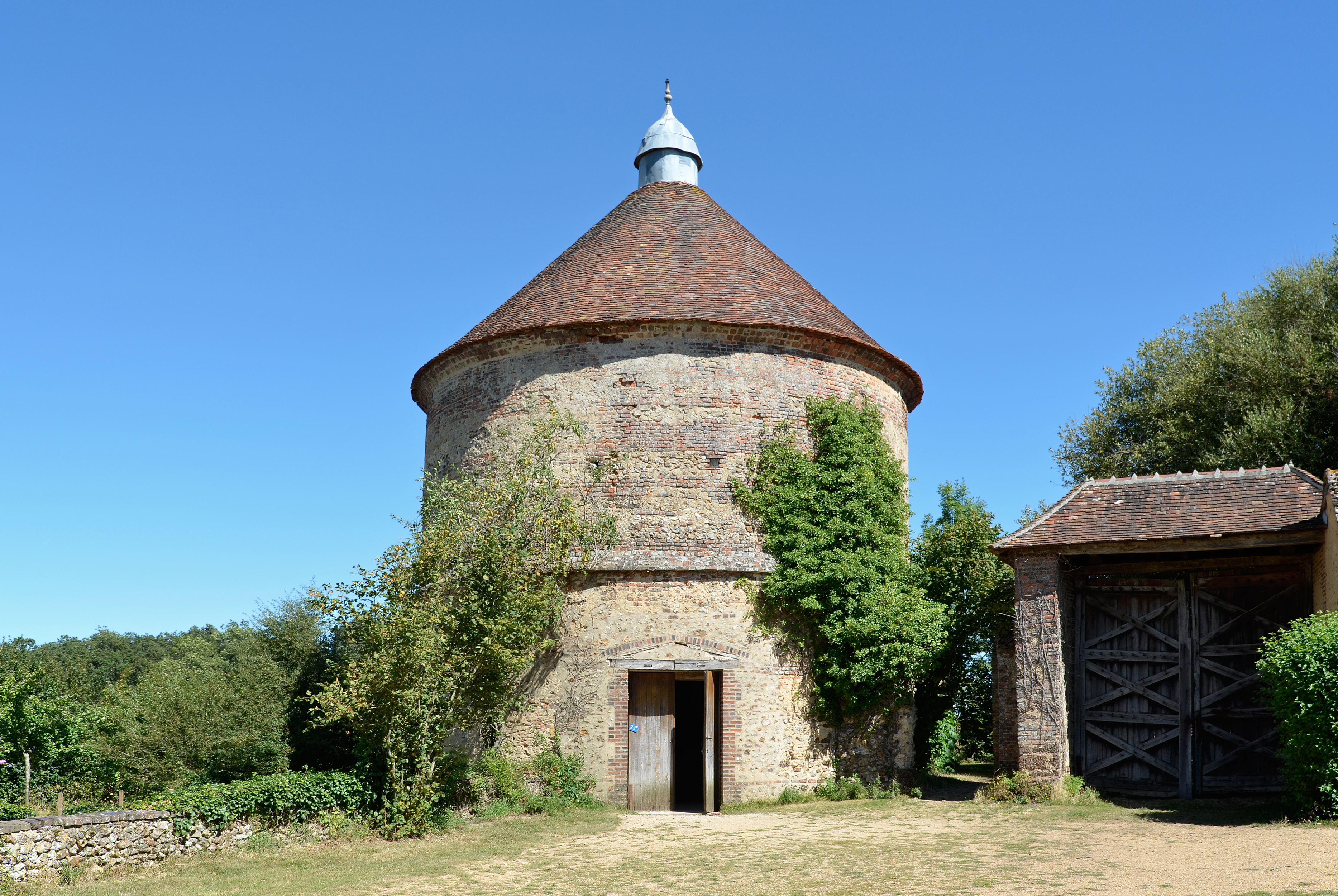 Dovecote of the Commandry of Arville - Loir-et-Cher, France